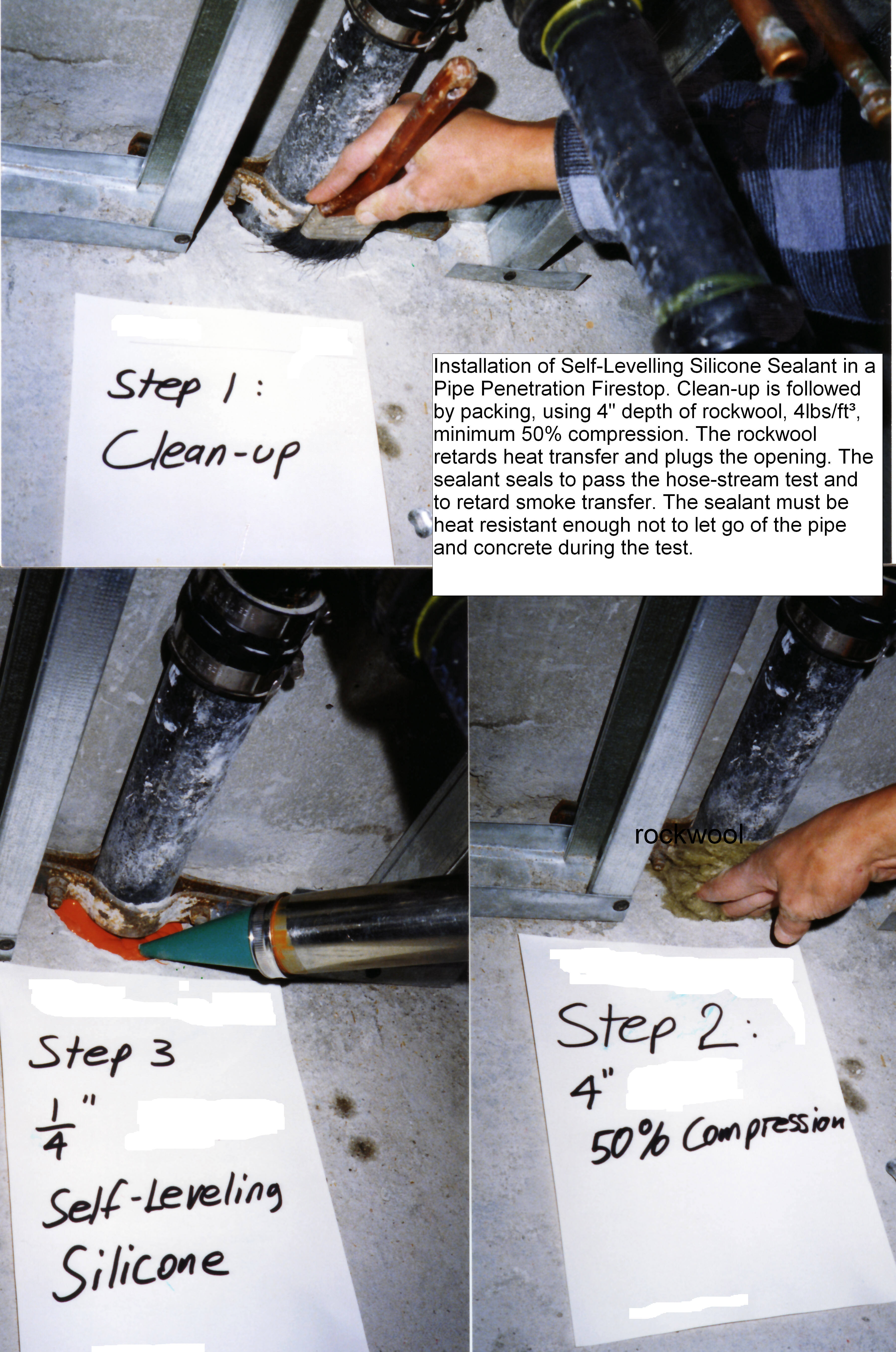 Self-levelling Silicone Firestop Installation